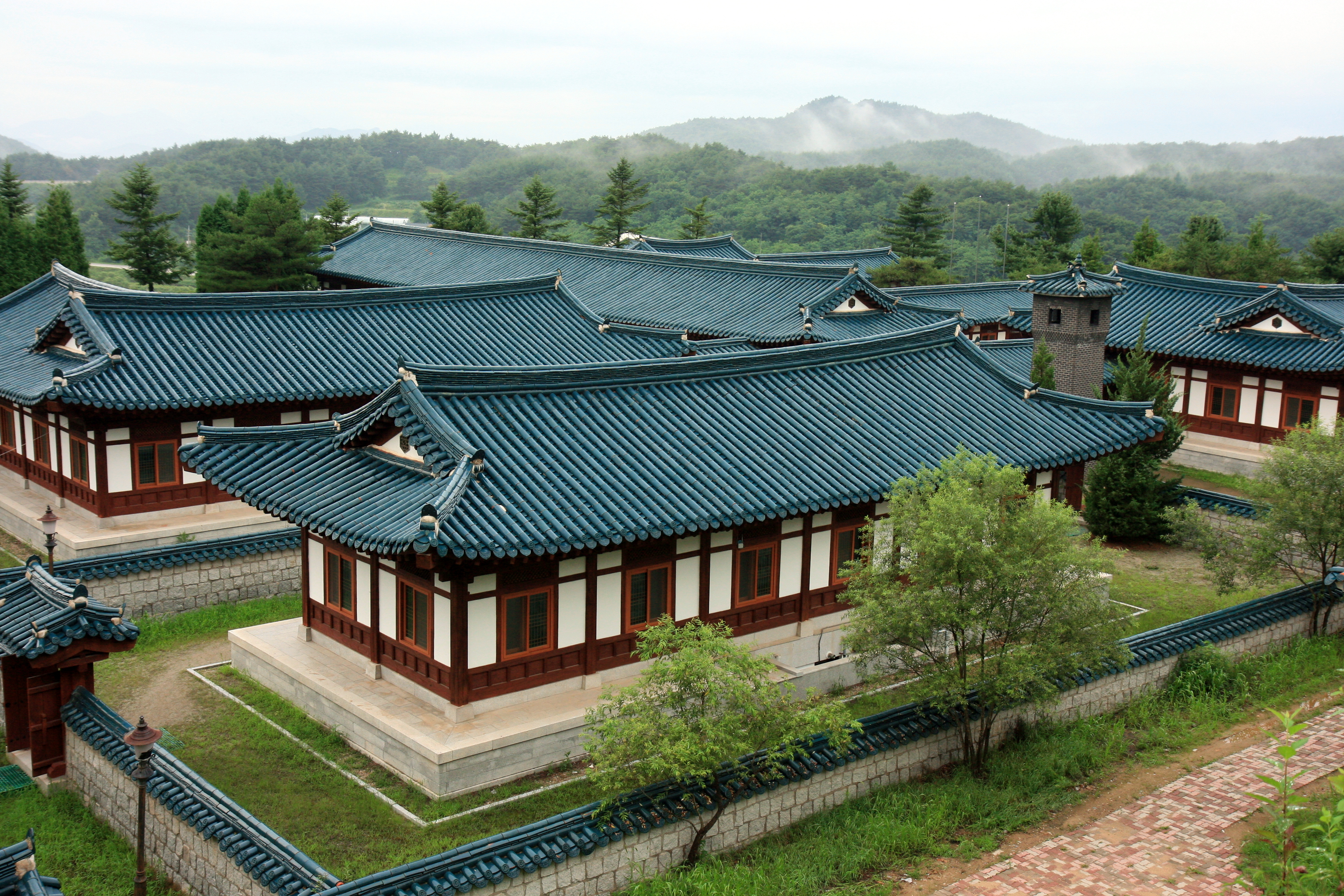 Elevated shot of the Minjok Cultural Center (민족교육관)